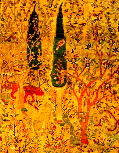 Azerbaijanian carpet from Tebriz in Musée des Arts Décoratifs in Paris.